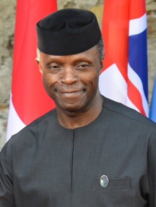 Yemi Osinbajo, Vice President of Nigeria, at the 43rd G7 summit